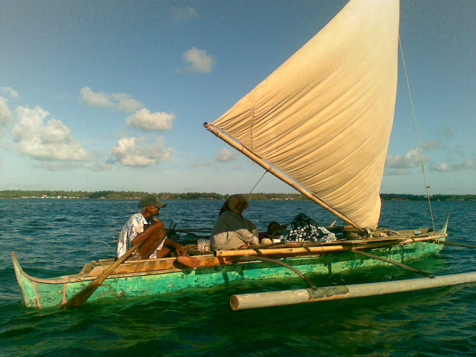 An undecroated Vinta Boat of the Bajau Laut people